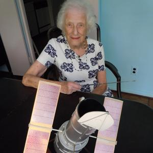 Nancy Grace Roman, 86, was NASA's first chief of astronomy and is considered the 'mother' of the Hubble Space Telescope.